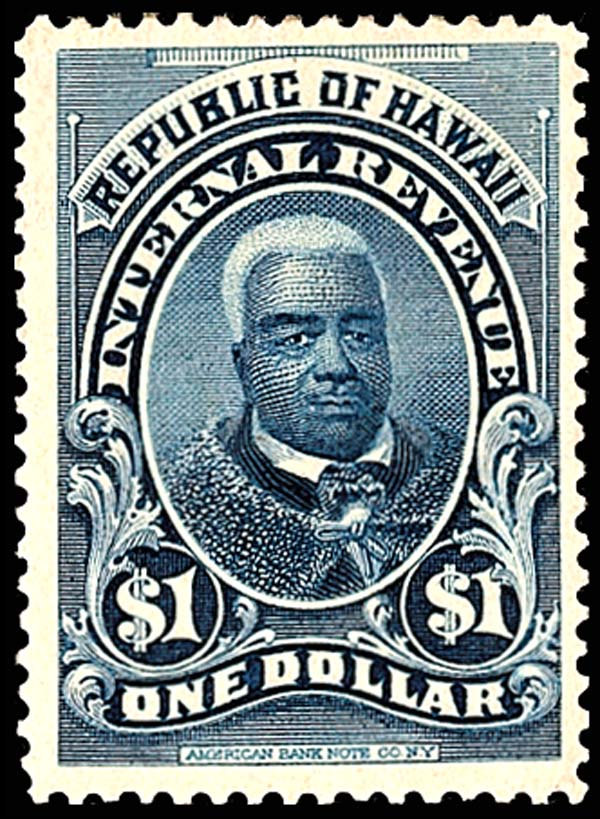 Revenue stamp of Hawaii, $1, dark blue, King Kamehameha I, Scott R11.